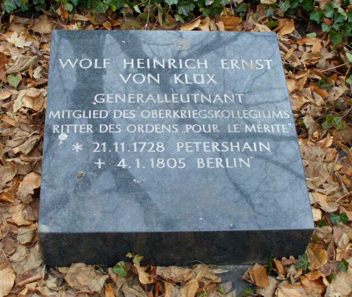 Grave of Wolf Heinrich Ernst von Klüx